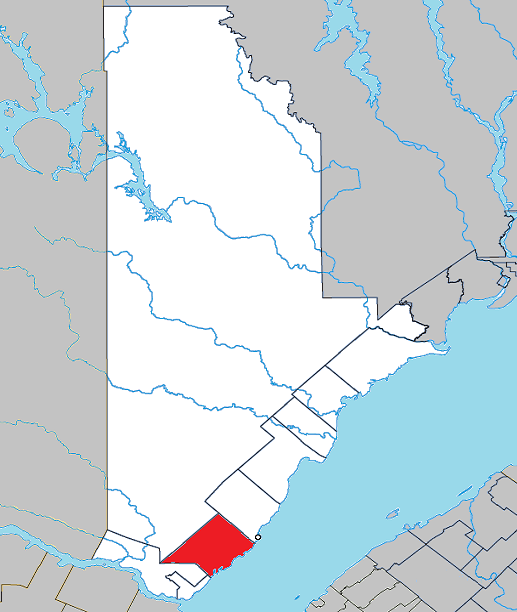 Location of Les Bergeronnes, Quebec within La Haute-Côte-Nord Regional County Municipality.